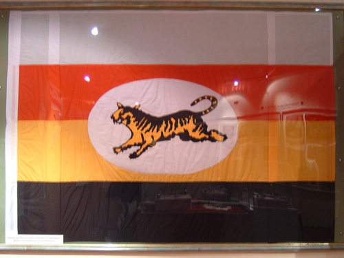 Photograph of the replica of the flag of the Federated Malay States. Exhibited at National History Museum, Kuala Lumpur, Malaysia.